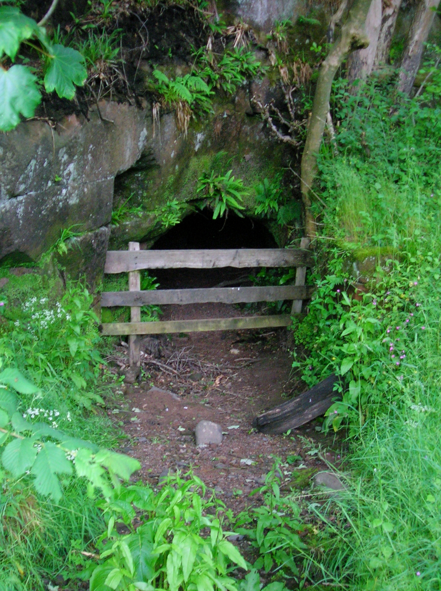 Tunnel running through from the cistern in the Kingen Cleugh Glen, Mauchline, East Ayrshire, Scotland.